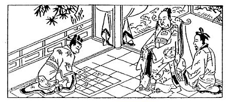 Diagram of counting board in a Japanese drawing